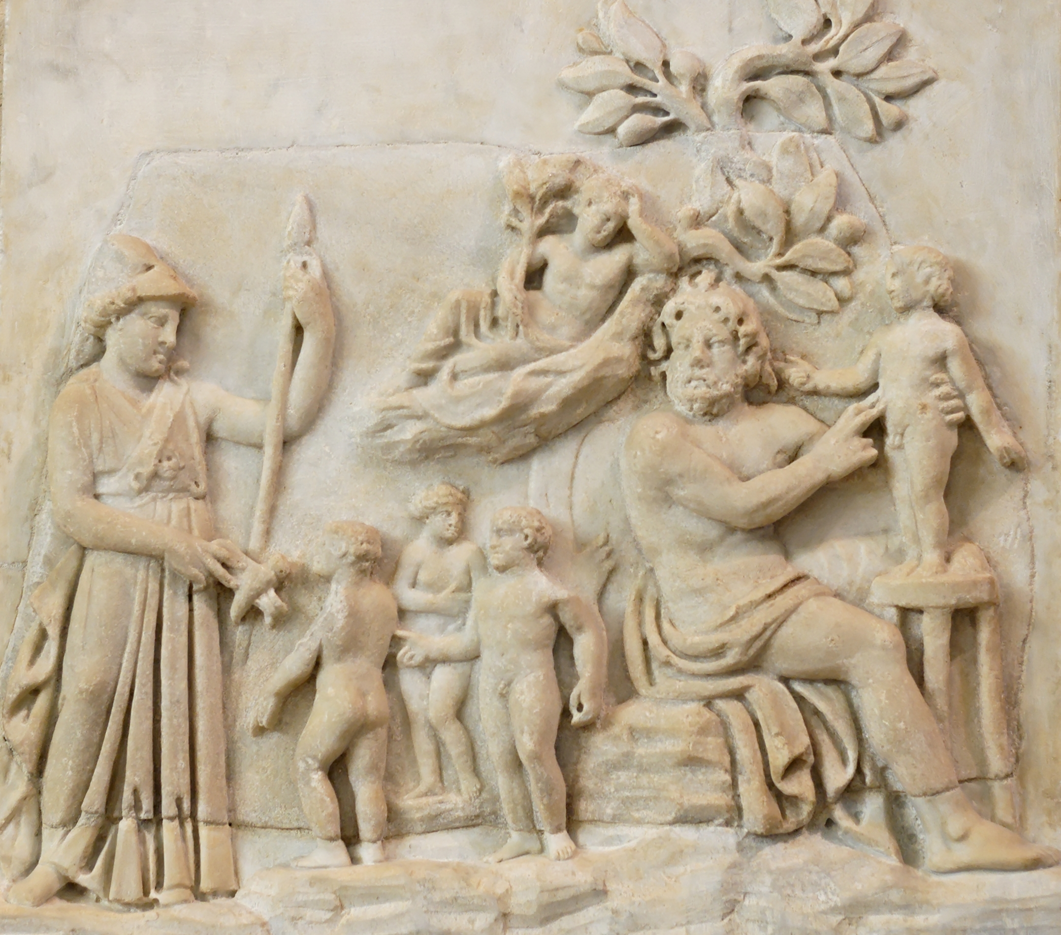 The creation of man by Prometheus. Marble relief, Italy, 3rd century CE.